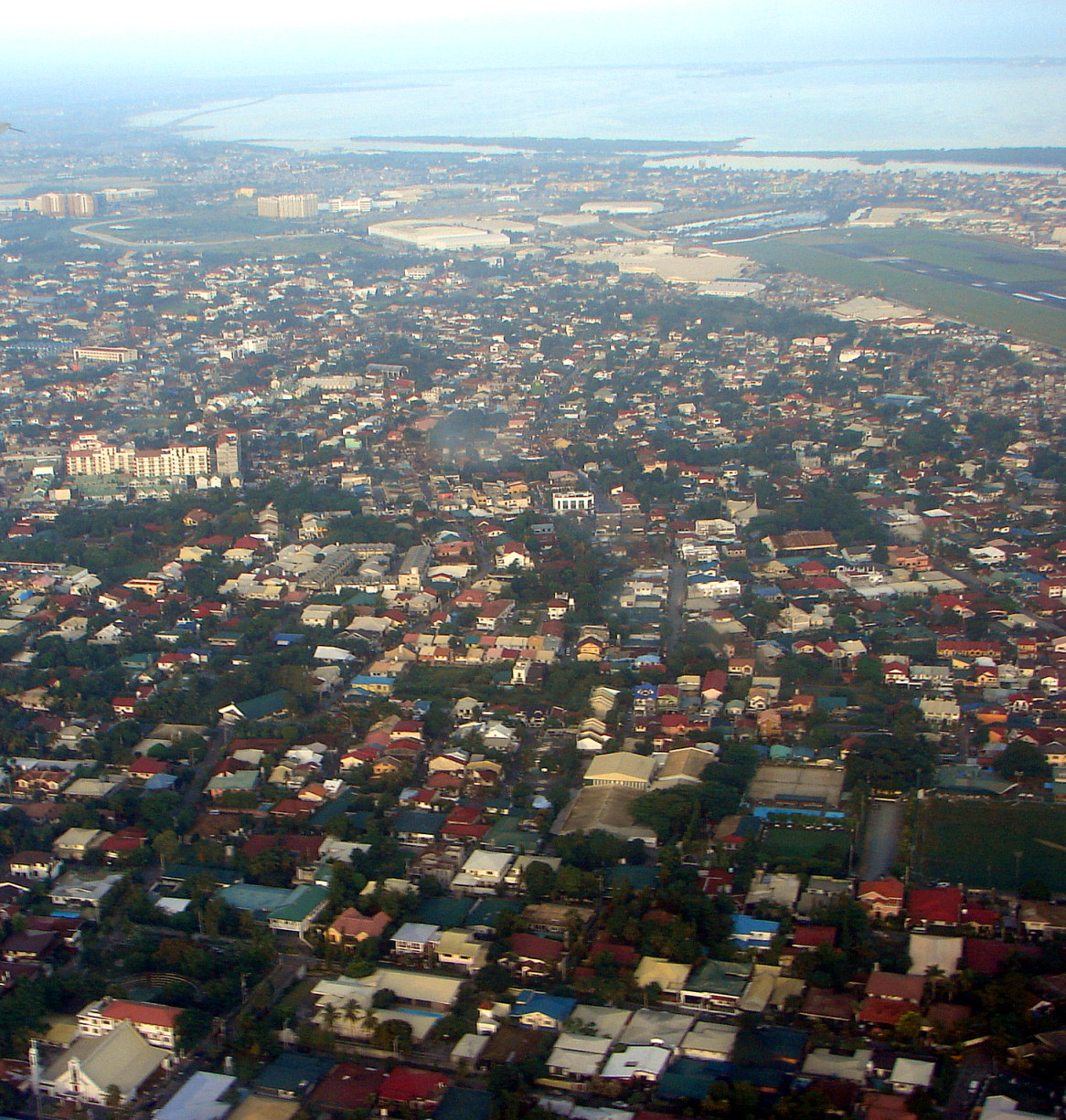 Parañaque City, the Philippines